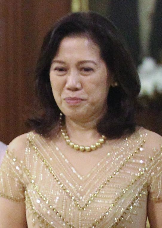 President Benigno S. Aquino III, accompanied by His Majesty Emperor Akihito and Her Majesty Empress Michiko of Japan during their arrival at the Malacañan Palace for the State Dinner on Wednesday (January 27). Also in photo is the Presidential sister Aurora Corazon “Pinky” Aquino-Abellada. (Photo by Robert Viñas / Malacañang Photo Bureau)